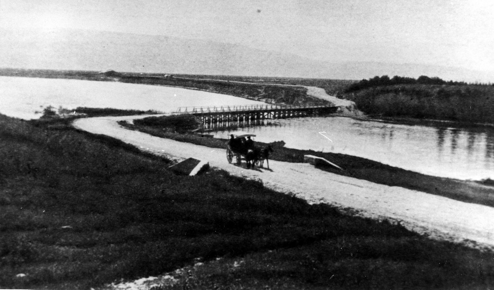 Sheikh Hussein Bridge. The wooden pylon bridge built by the British on the Jordan River